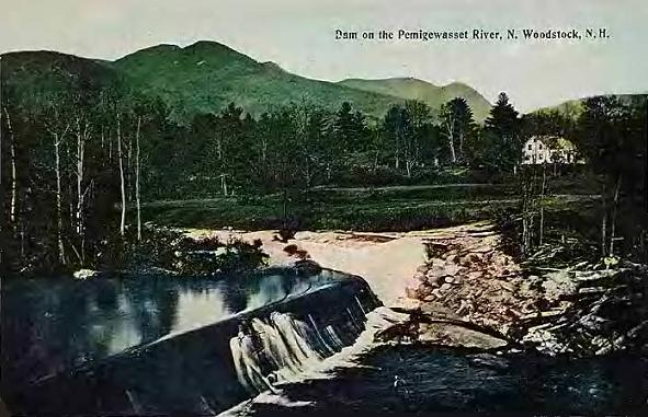 Dam on the Pemigewasset River in 1912, Woodstock, NH; from an old postcard.